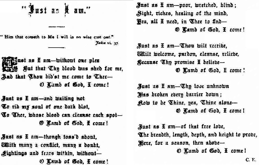 Just as I Am, English hymn